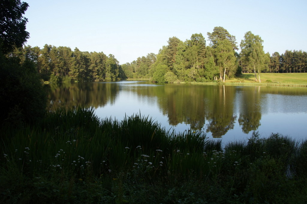 Depicted place: Black Loch, Perth and Kinross